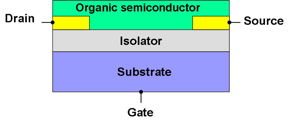 Schematic of an organic field effect transistor